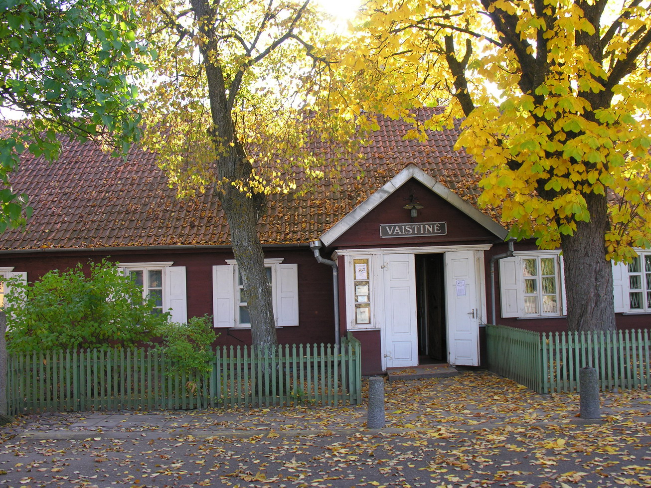 Pharmacy Museum in Viekšniai, Lithuania